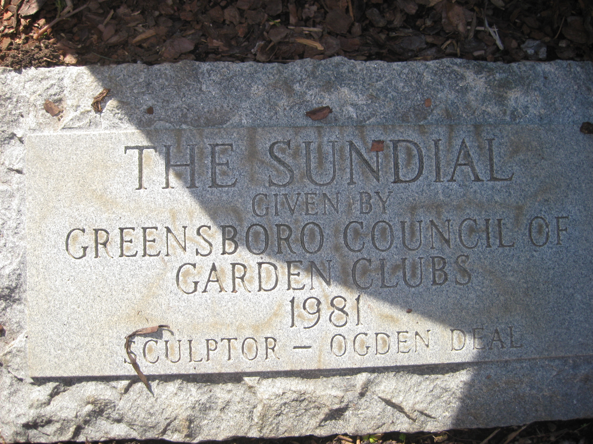 Plaque accompanying Sundial in Tanger Family Bicentennial Garden located in Greensboro, N.C.